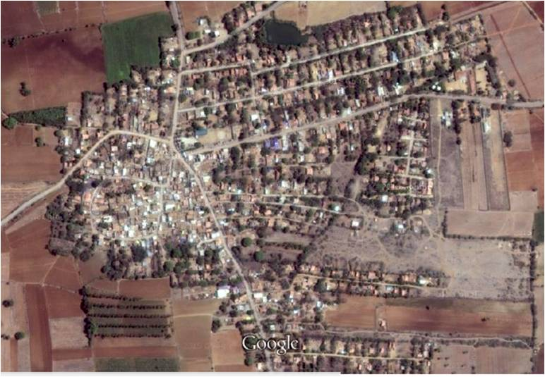 Aremallapur village is good infrastructure and smart village